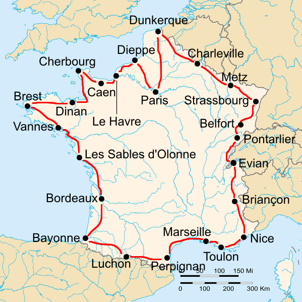 Route of the 1927 Tour de France, starting and finishing in Paris.